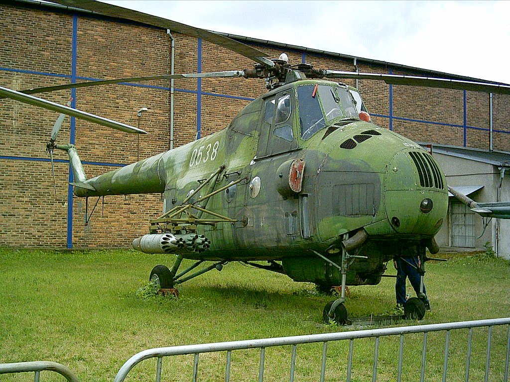 Mil Mi-4, Kbely museum, Prague, Czech Republic